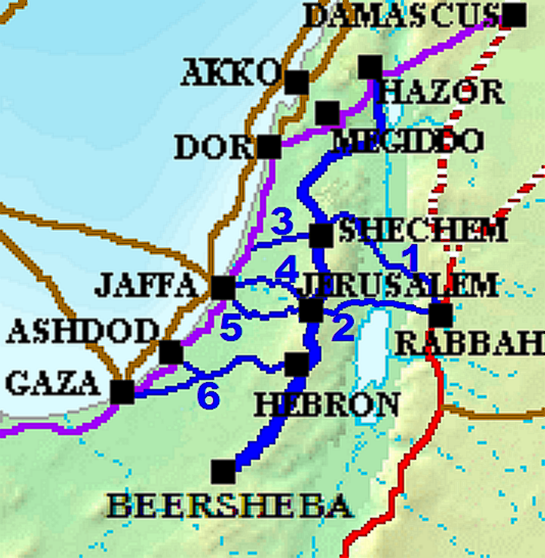 Way of the Patriarchs (blue), (1)Sunset Road, (2)Red Ascent, (3)Aphek Ascent, (4)Beit Horon Ascent, (5)Ayalon Road, (6)Lachish Road Via Maris (purple), Kings Highway (red)